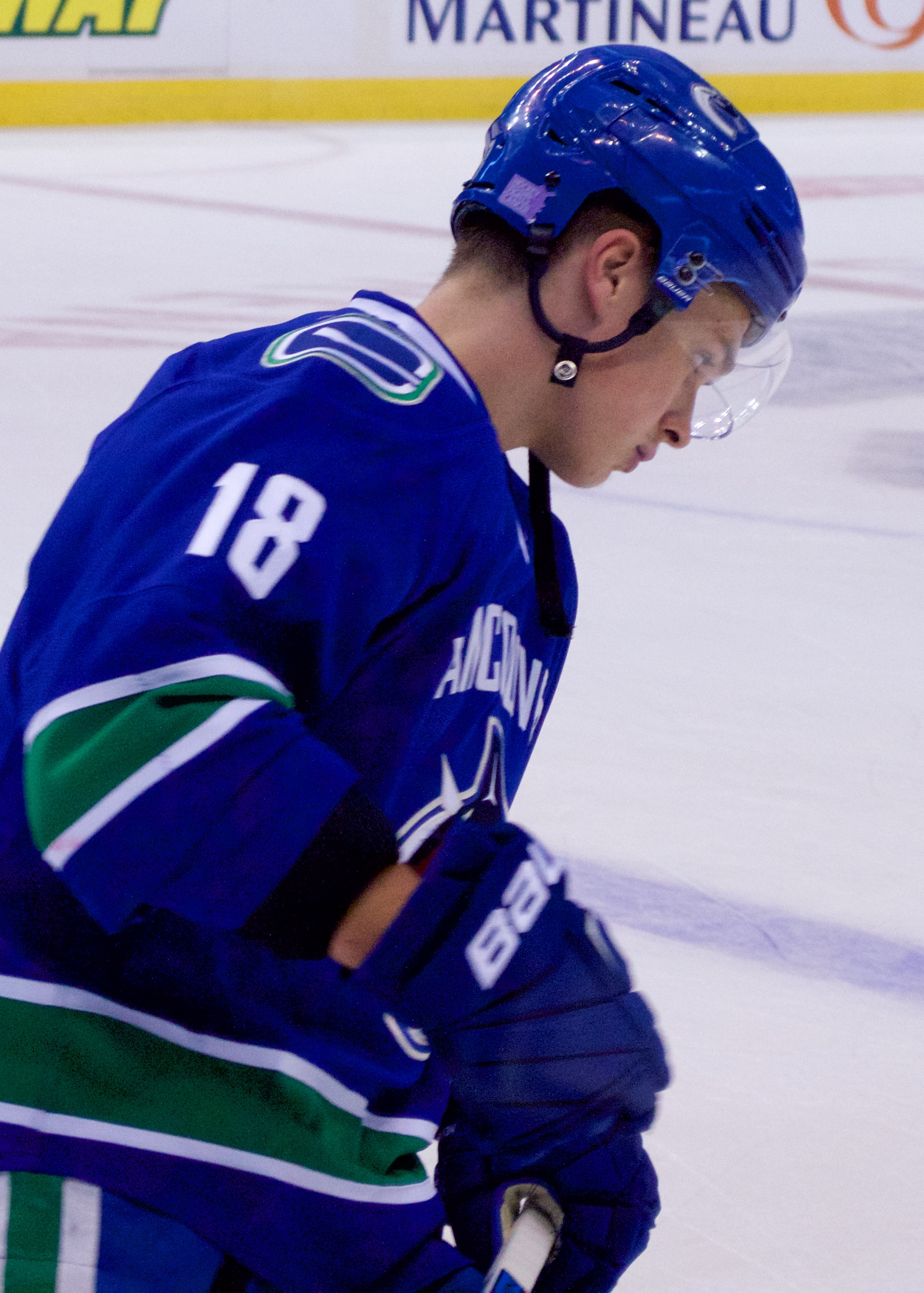 Vancouver Canucks forward Jake Virtanen during pre-game warmup on October 22, 2015.